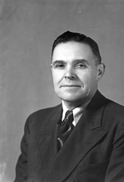 Representative C. N. Eaton, 1939